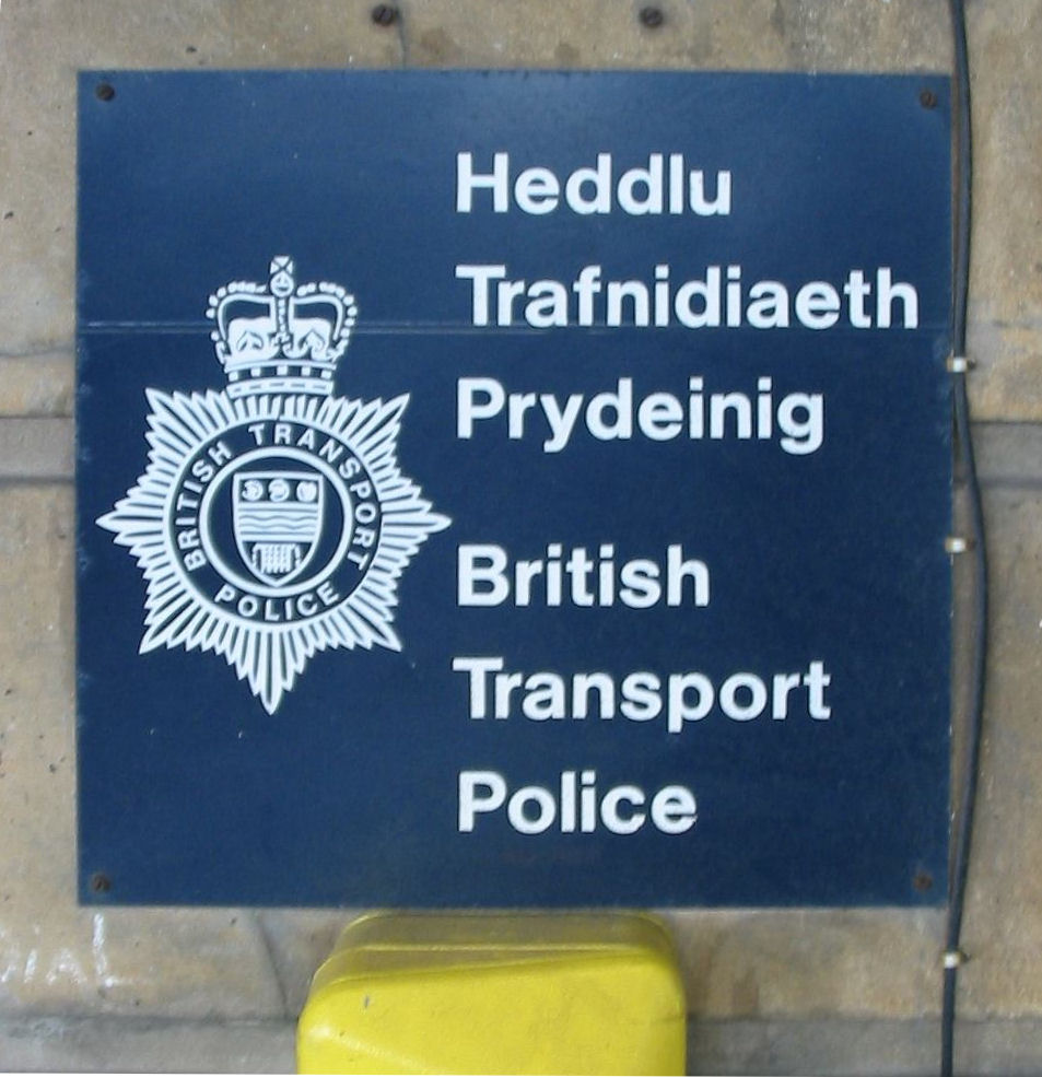 British Transport Police